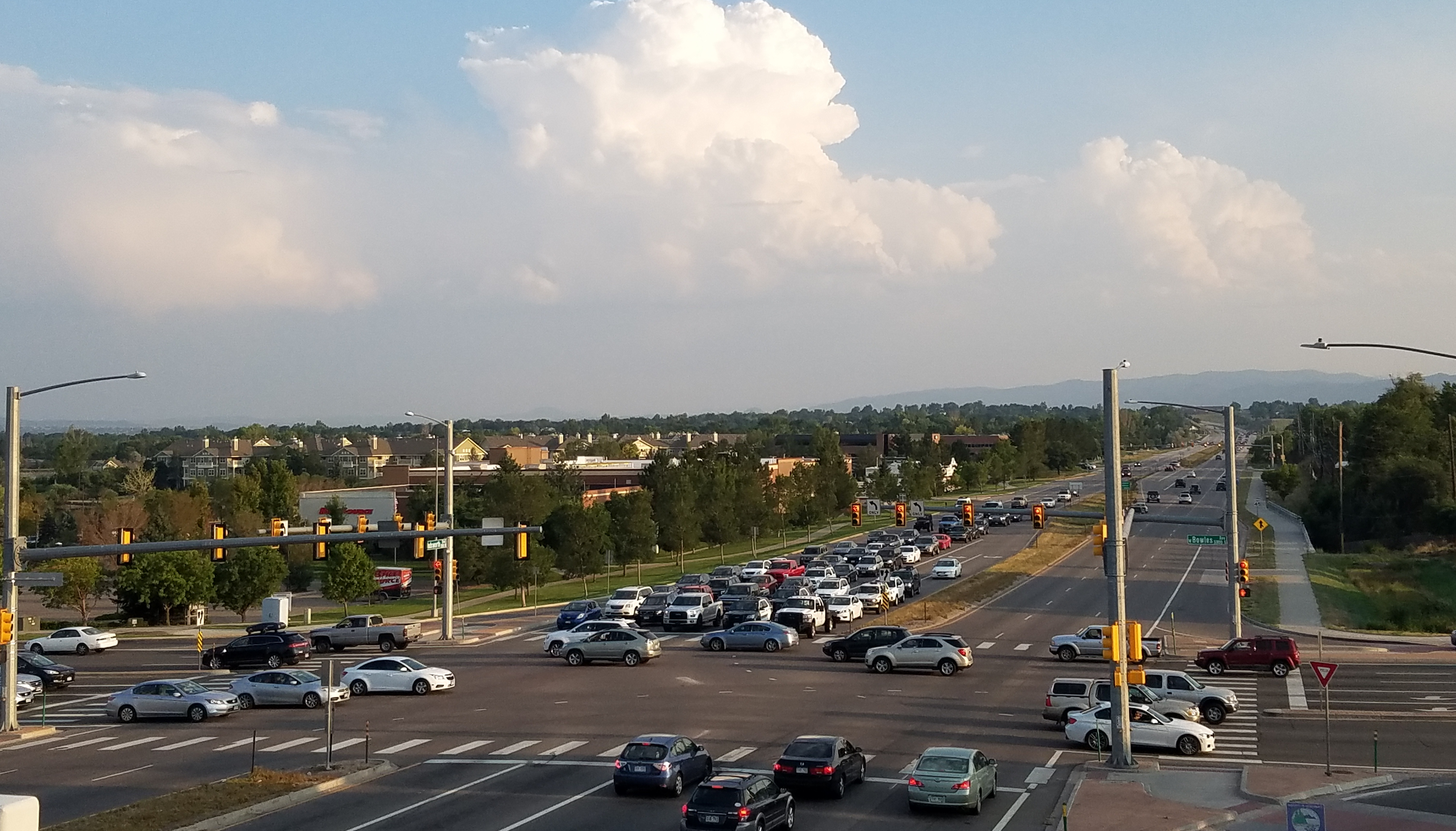 Wadsworth Blvd. (Colorado Highway 121) at Bowles Ave. Taken 29 August 2017.